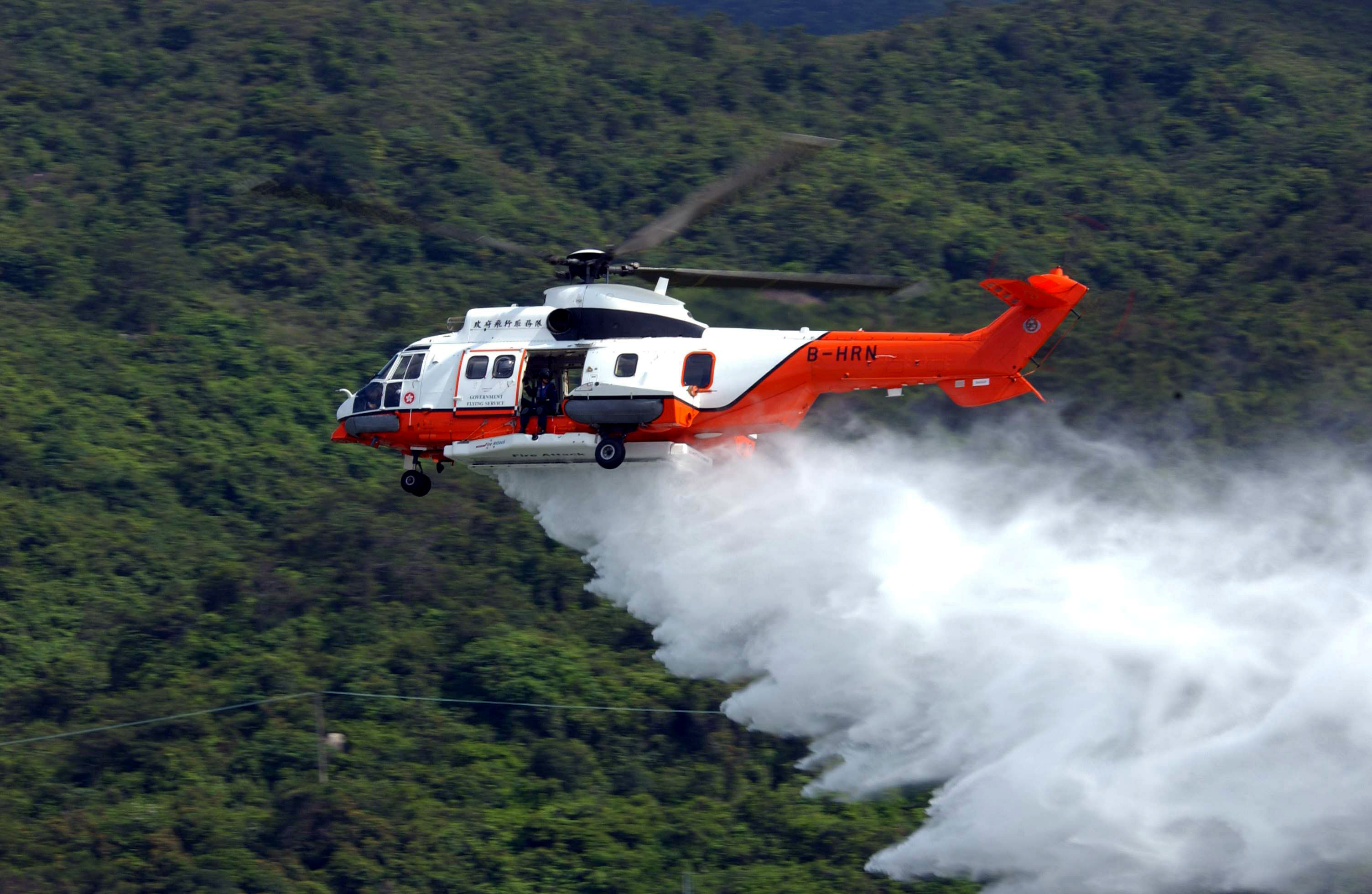 A Chinese AS32 helicopter from the Hong Kong Government Flying Service conducts a water bomb demonstration during the Hong Kong Search and Rescue Exercise at the Hong Kong International Airport